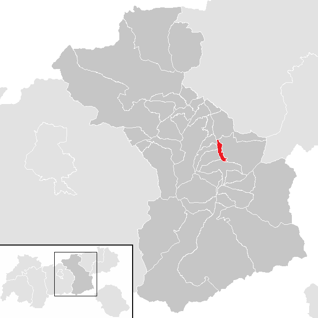 District Schwaz